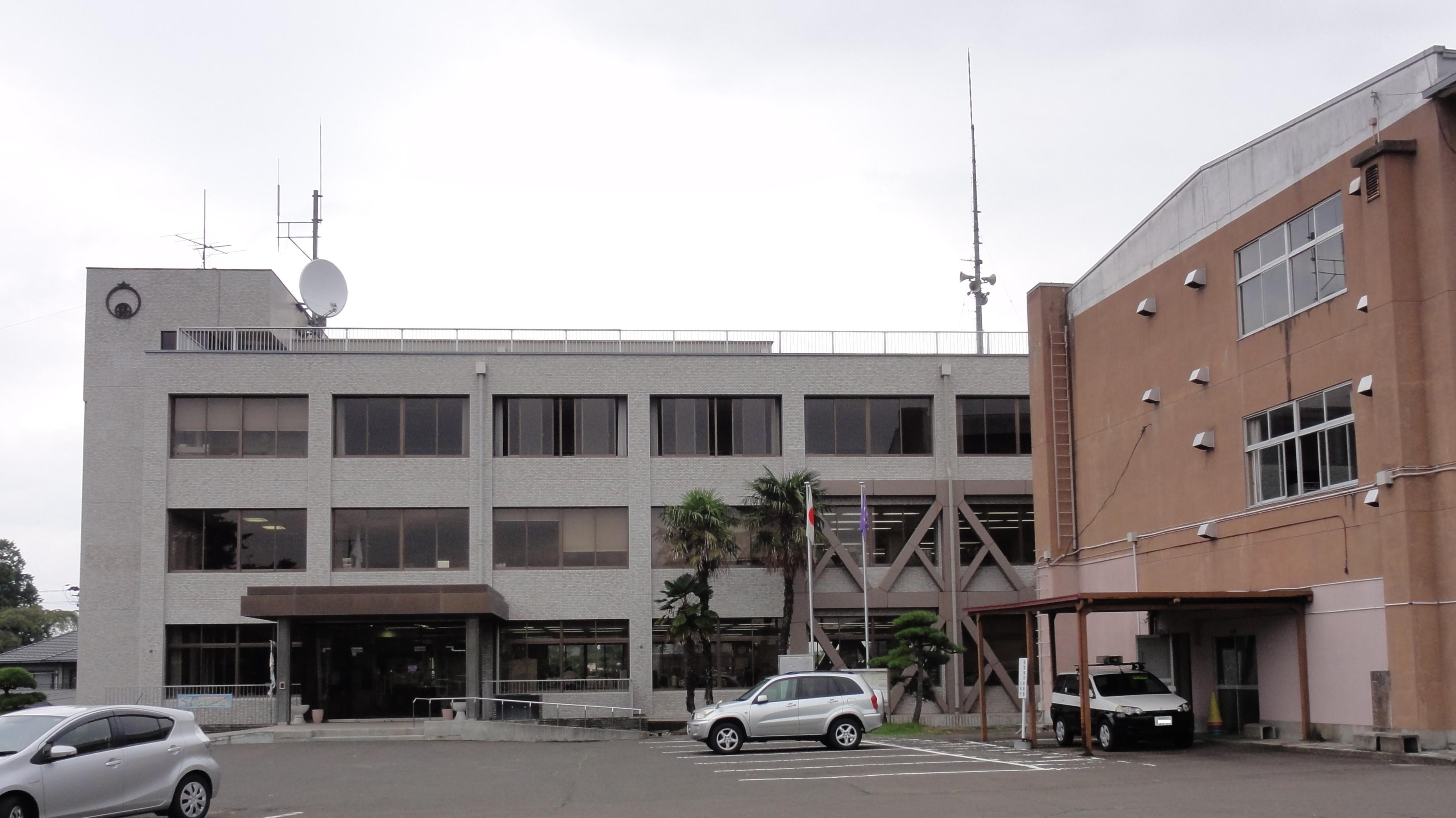 Osato town office,Miyagi prefecture,Japan